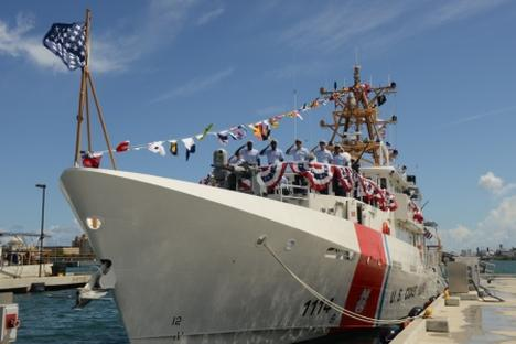 Commissioning the USCGC Heriberto Hernandez (WPC 1114) Original caption: “The crew of the Coast Guard Cutter Heriberto Hernandez salutes the official party of the cutter's commissioning ceremony at Coast Guard Sector San Juan, Puerto Rico, October 16, 2015. The cutter Hernandez is the Coast Guard's 14th commissioned 154-foot fast response cutter. (US Coast Guard photo by Petty Officer 2nd Class Jon-Paul Rios)”